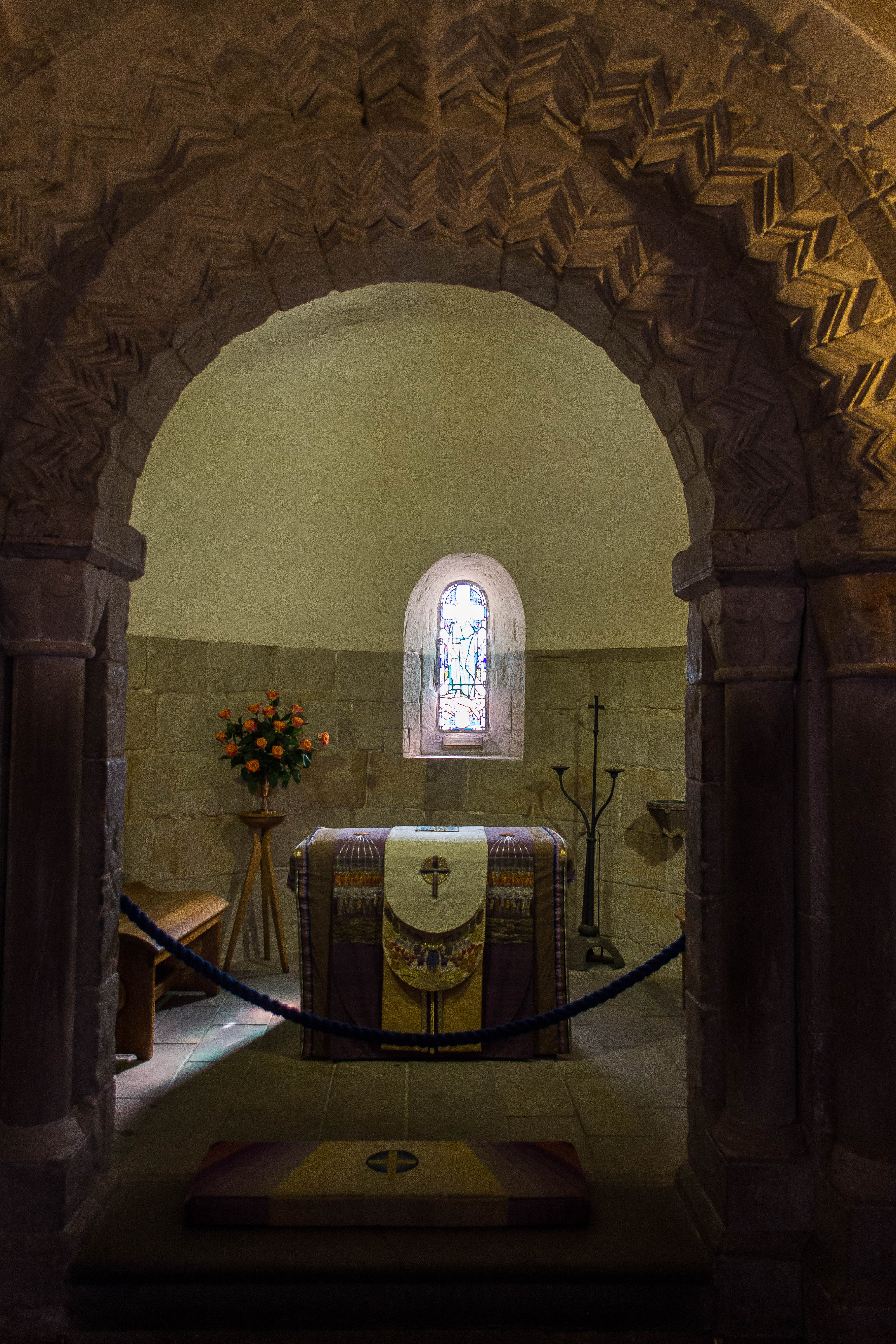 EDINBURGH CASTLE, ST MARGARET'S CHAPEL Wikidata has entry Q17570928 with data related to this building.